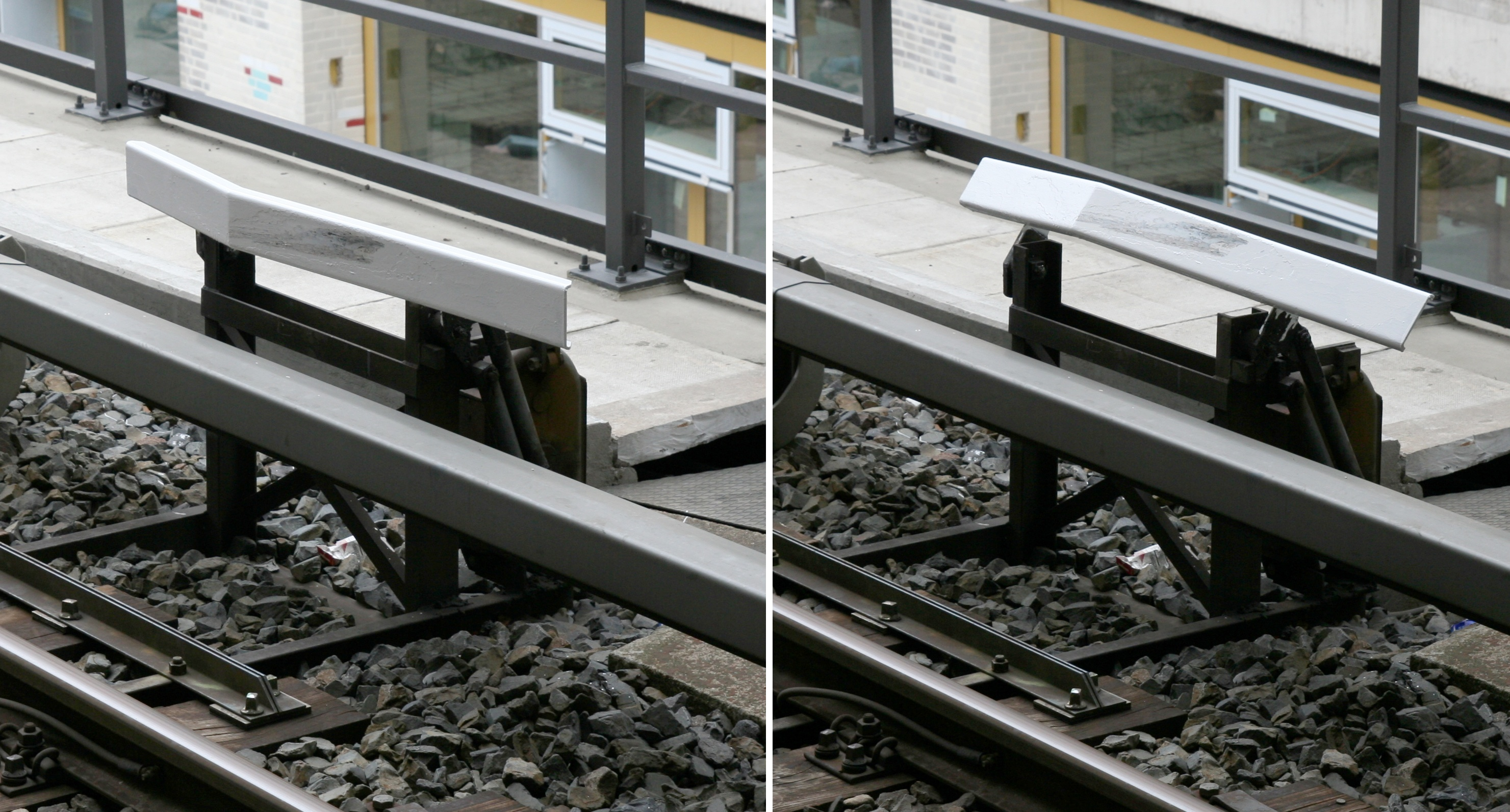 S-Bahn Berlin: Train control by Train stop. Left: Red signal, the white bar touches a valve which stops the train. Right: The white bar is tilted away outside the structure gauge.